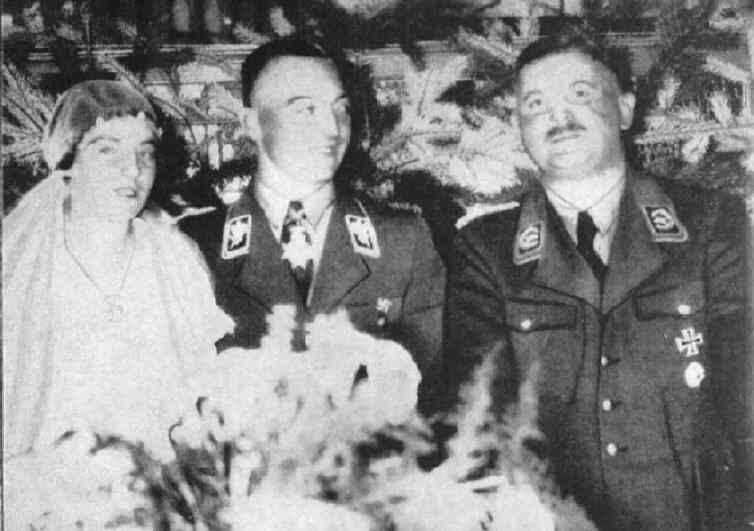 SA Chief of Staff Ernst Roehm as a guest at the wedding of the SA Chief of Berlin Karl Ernst in May 1934. Both were shot in 1934 during the Night of the Long Knives.